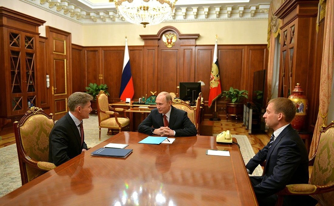 Meeting with Oleg Kozhemyako and Alexander Kozlov